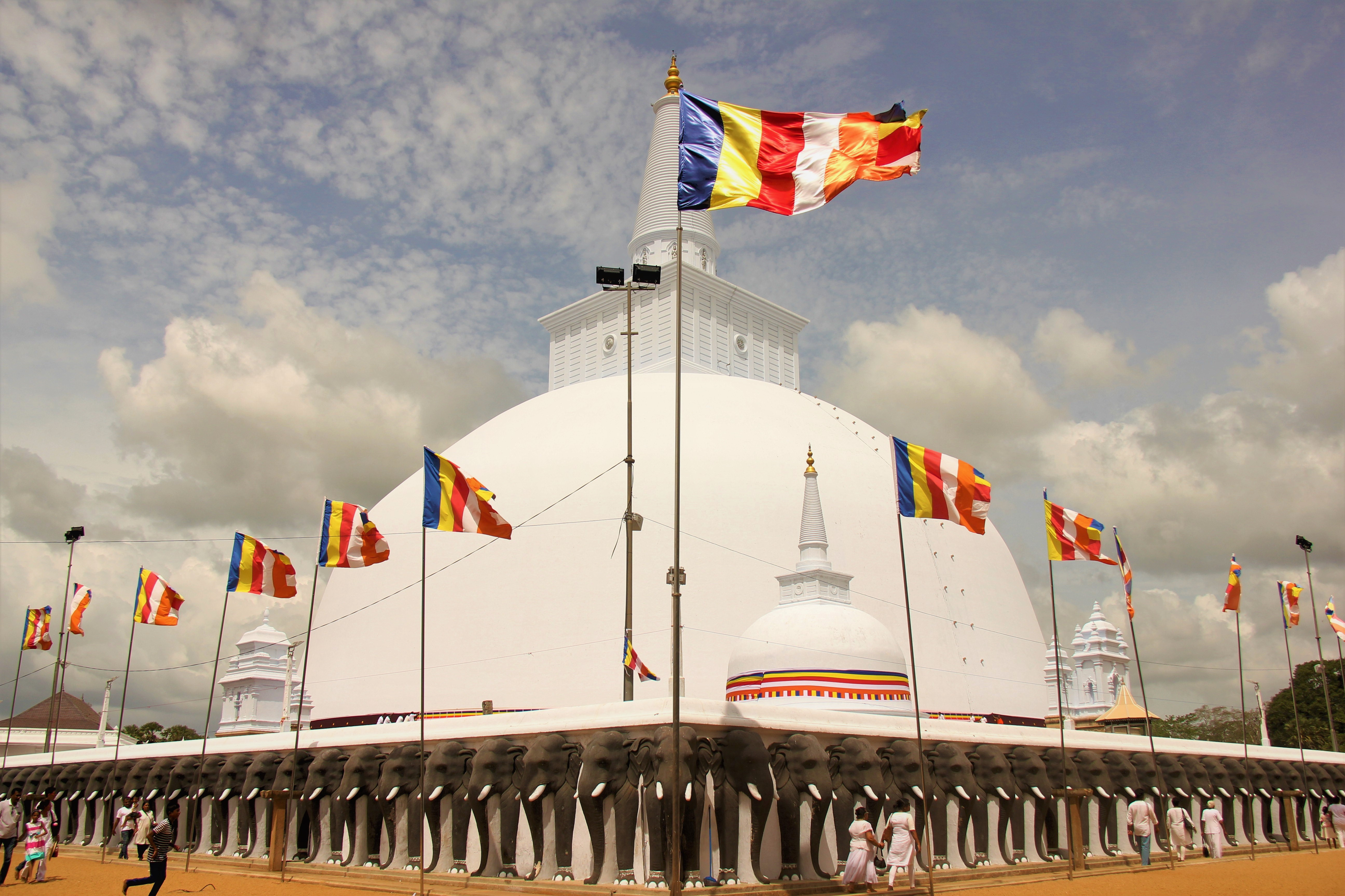 Ruwanwelisaya side view with boundary walls featuring elephant head sculptures.